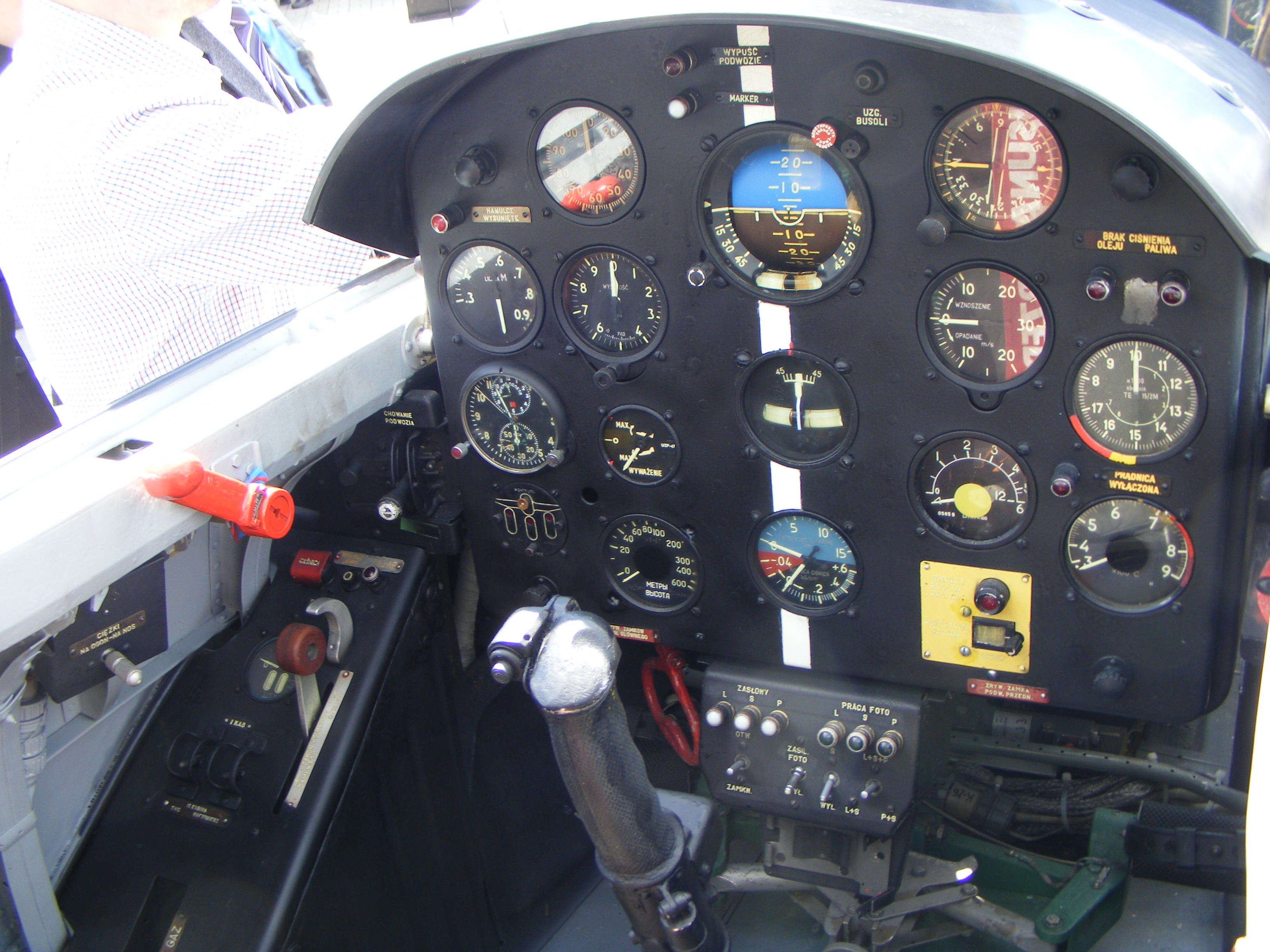 Cockpit of PZL TS-11F Iskra at MSPO 2008.